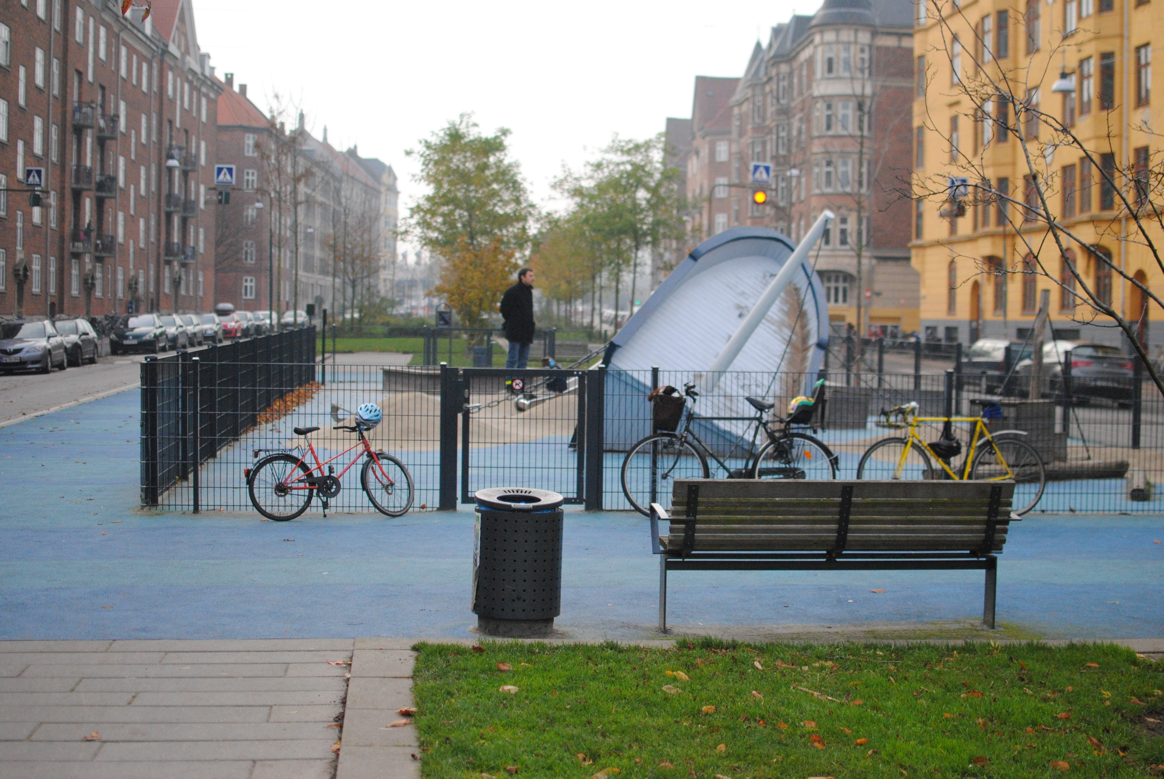 A playground at the strip park in the central reserve of Sønder Boulevard in Copenhagen, Denmark